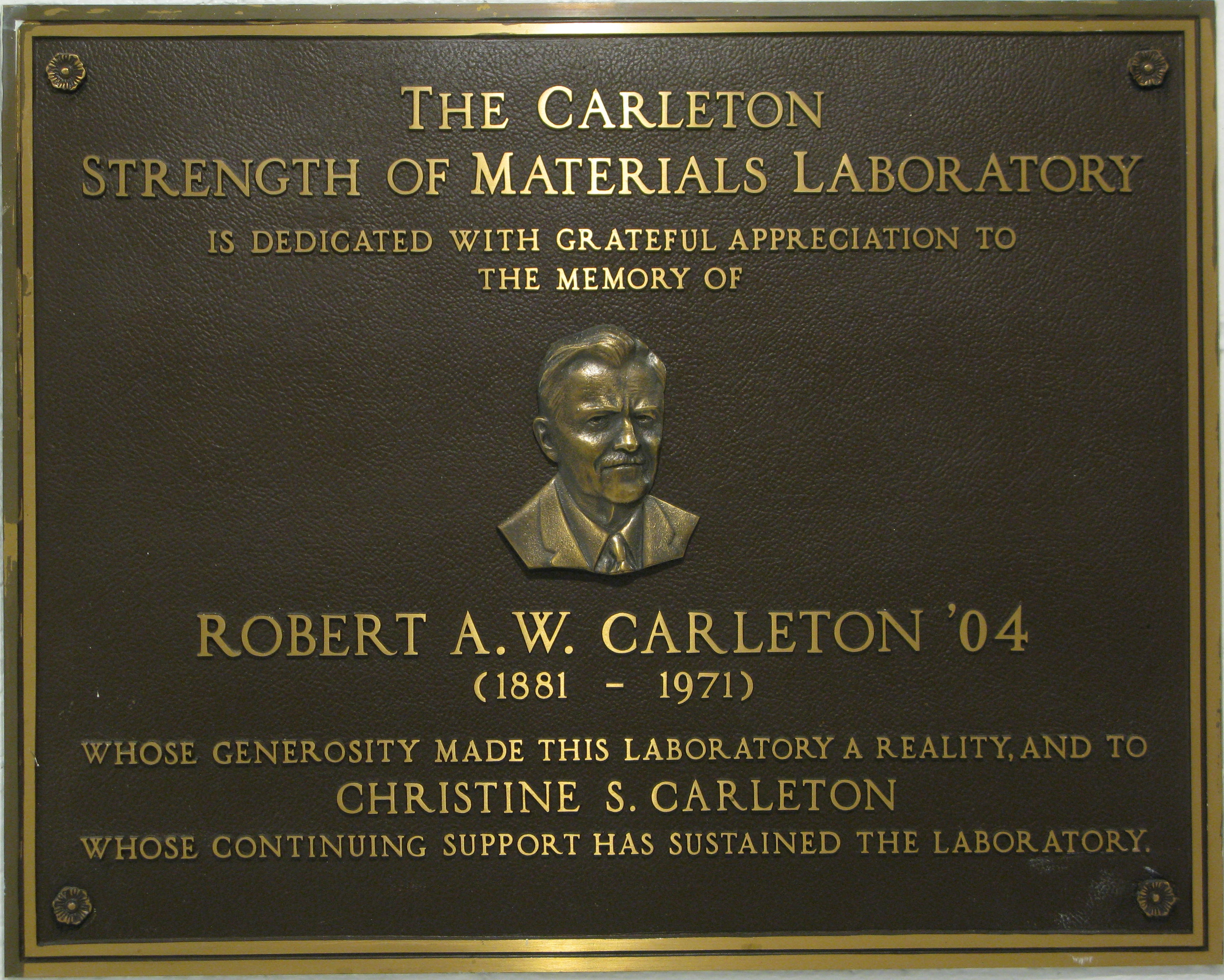 Official plaque commemorating Carleton Laboratory at Columbia University